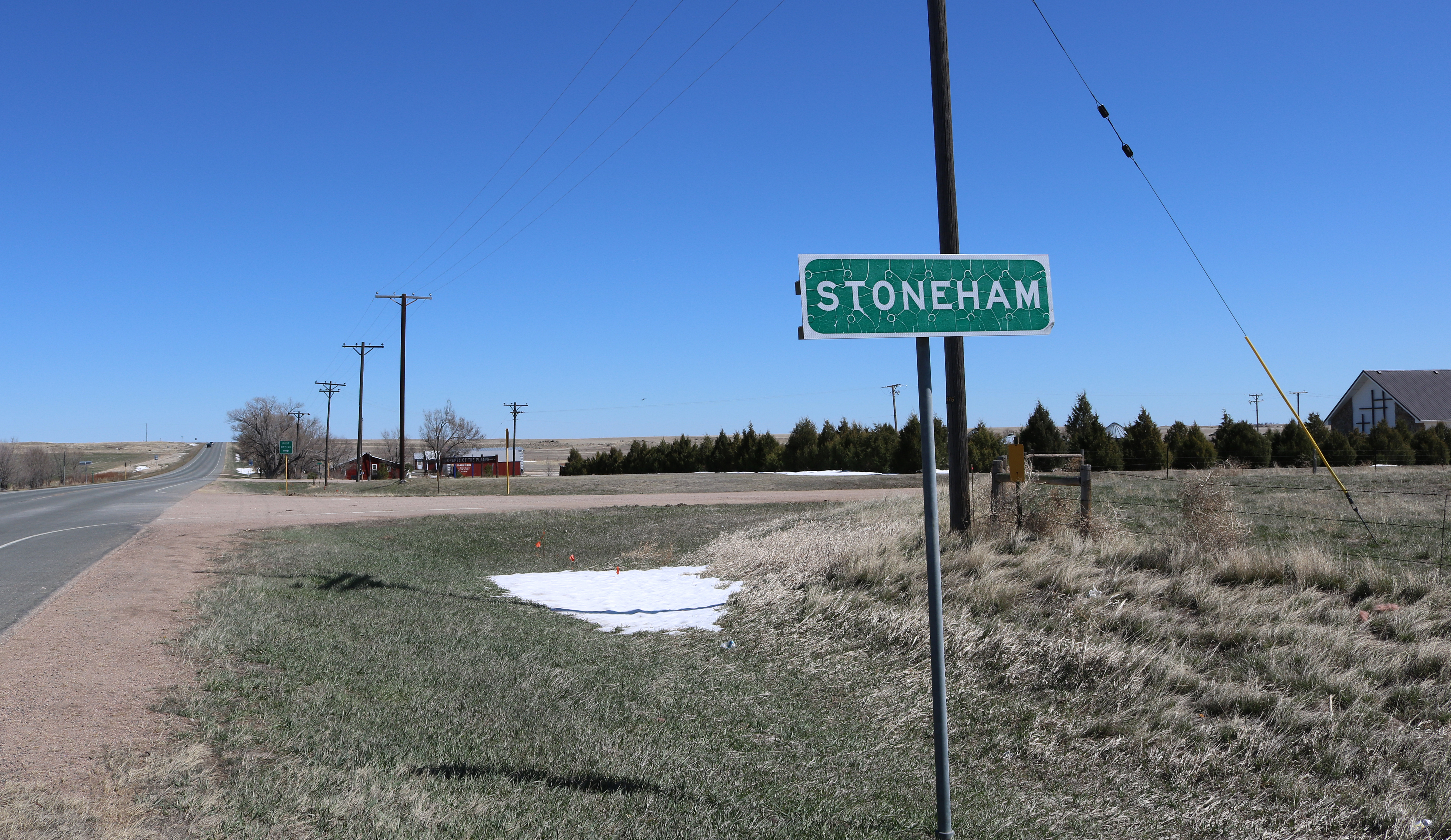 Stoneham, Colorado in Weld County. Colorado State Highway 14 is on the left.